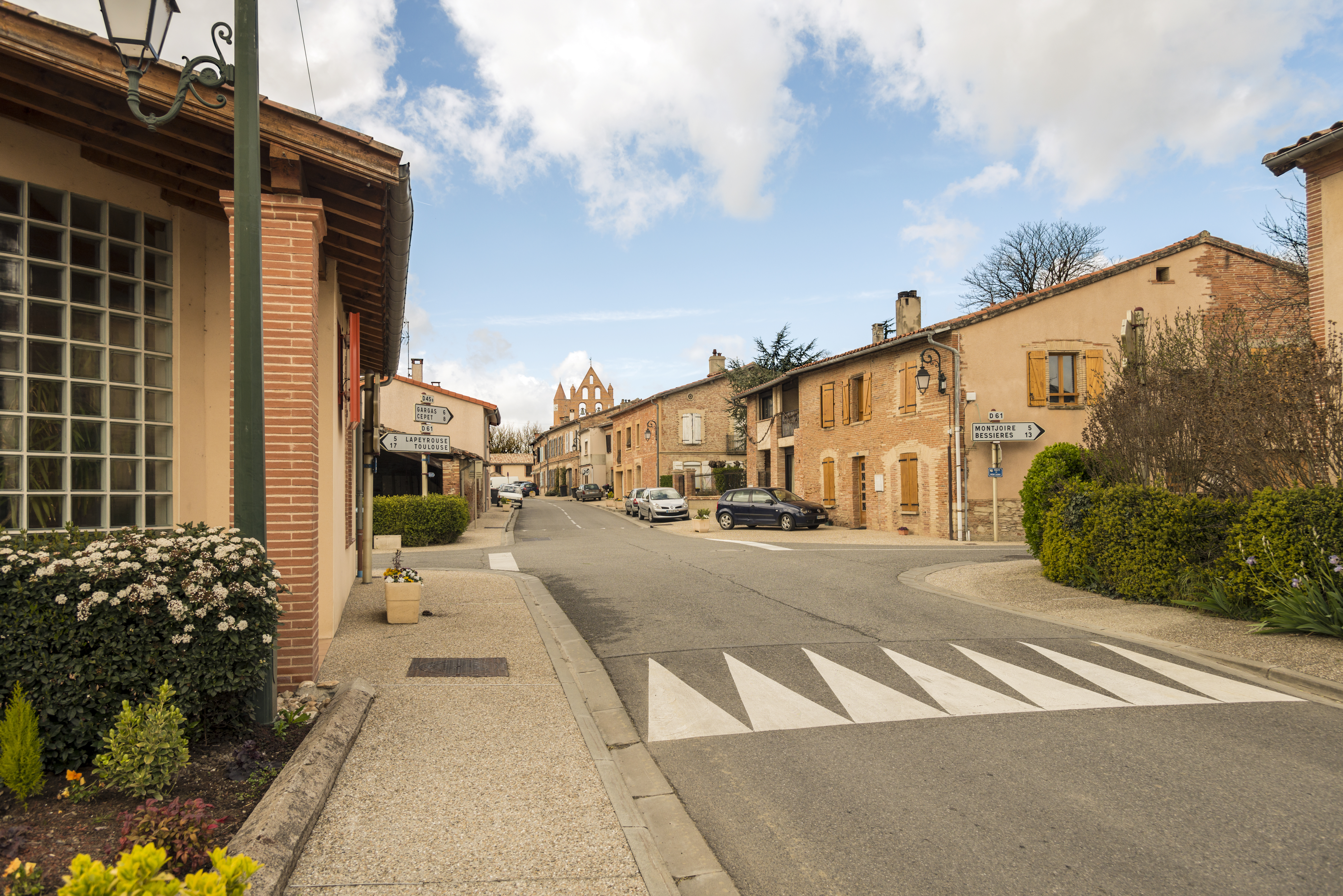 The village center of Bazus, Haute-Garonne, France.